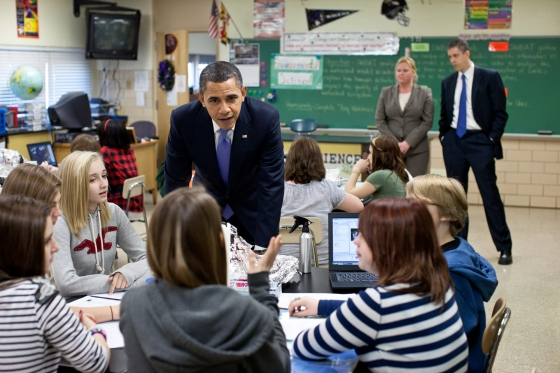 President Obama visits Parkville Middle School, Parkville, Maryland, Februrary 14, 2011